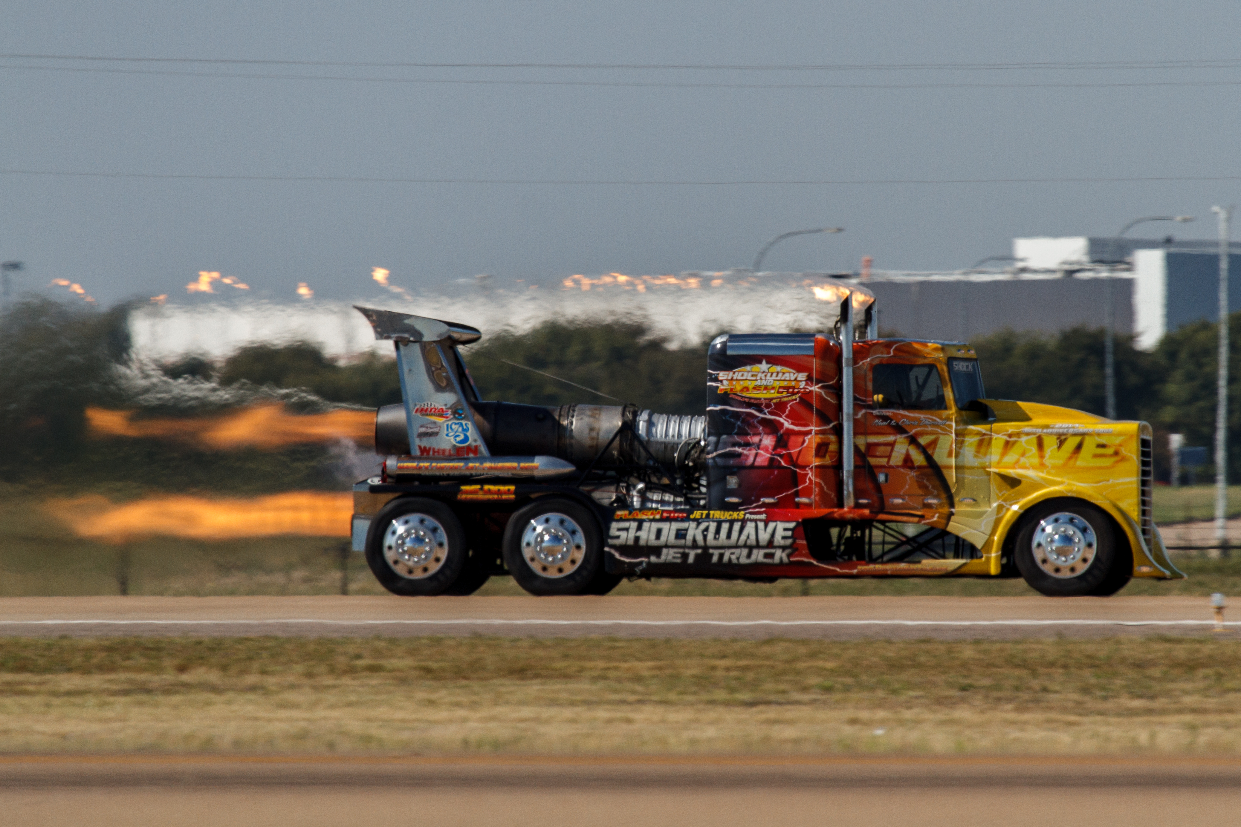 The Shockwave Truck performing at the Alliance Air Show in Fort Worth, Texas in 2014.